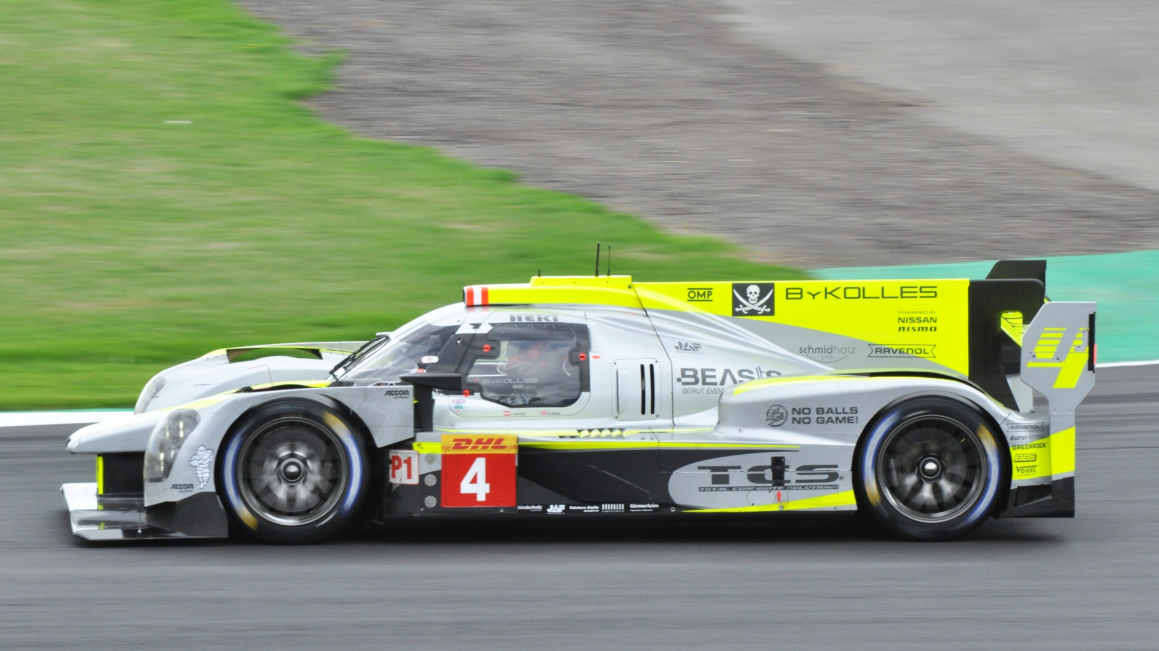 Austrian driver René Binder in the number 4 ByKolles Racing entry, turning in to Village corner during the 2018 6 Hours of Silverstone race. Binder and his co-driver, British driver Oliver Webb, retired from the race after the second hour.